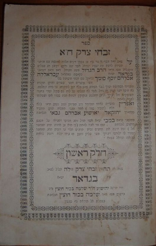 Book Zivchei Tzedek by Rabbi Abdala Somech, Baghdad, 1899